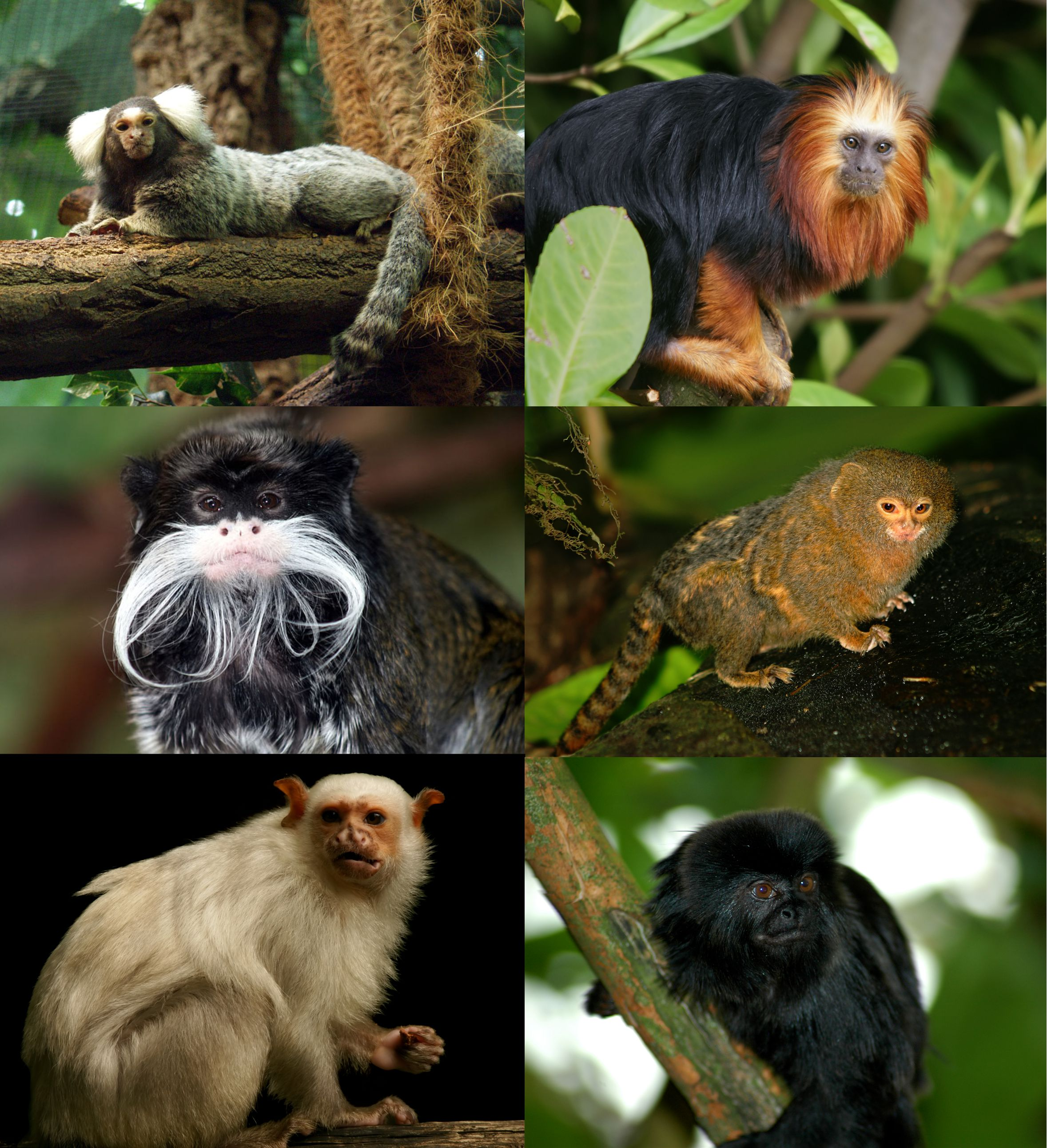 Golden-headed Lion Tamarin at Chester Zoo near Chester, UK. Emperor Tamarin Mico argentatus (Linnaeus, 1766)